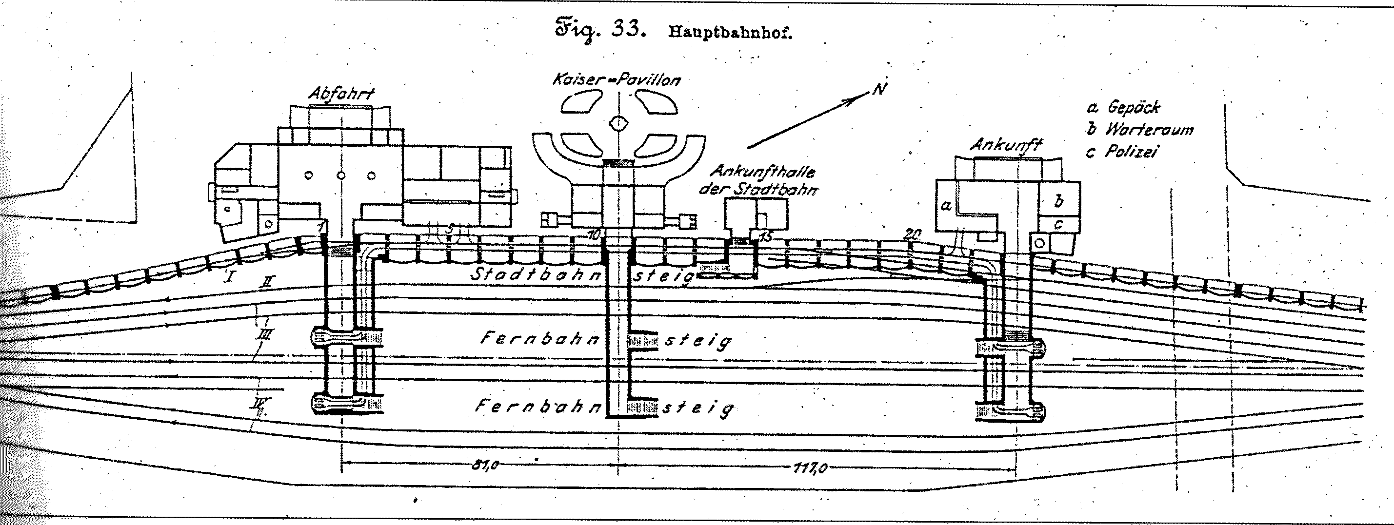 Original ground plan of Tokyo station designed by German railway engineer, Franz Baltzer. This plan was employed with slight modifications.